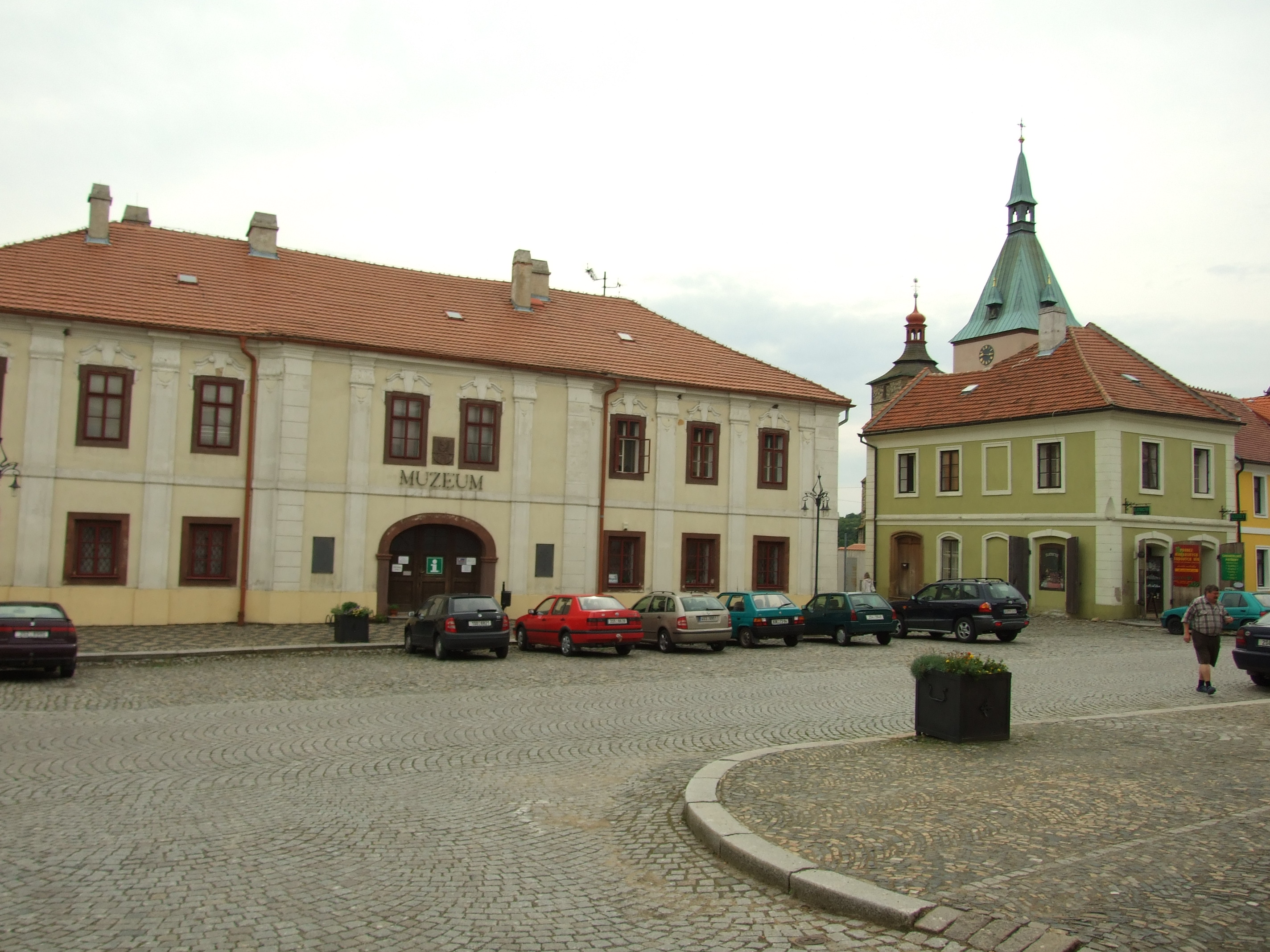 Town of Kouřim near Český Brod and Kostelec nad Černými Lesy in Central Bohemian region, CZhelp